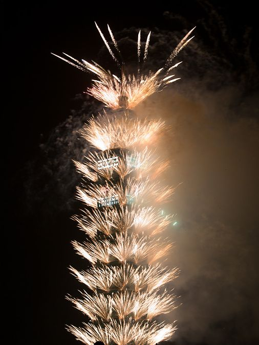 2008 Taipei City New Year Countdown Party: The Firework from Taipei 101.